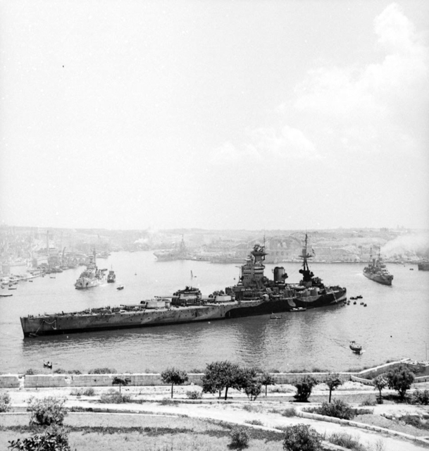 Australian War Memorial image MEA0244. HMS Rodney in Valetta Harbour, Malta